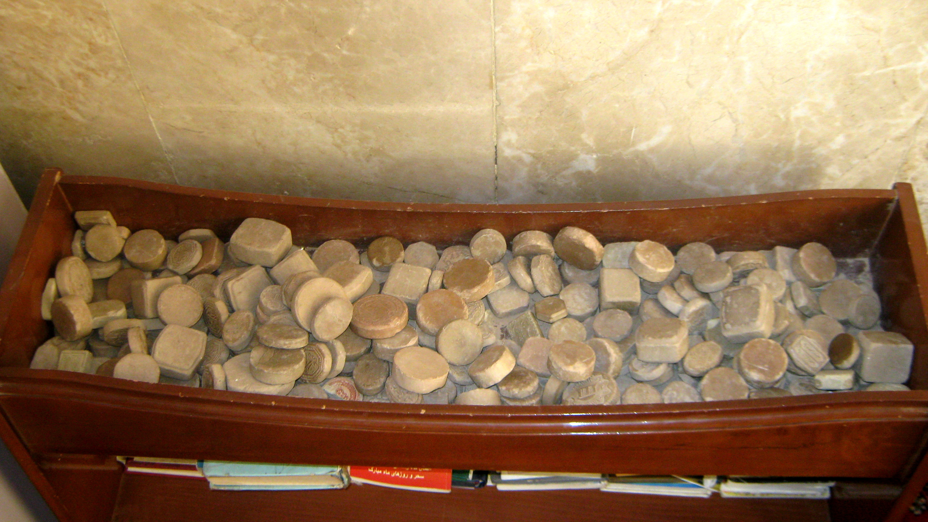 Snapshots of Grand Mosque of Nishapur